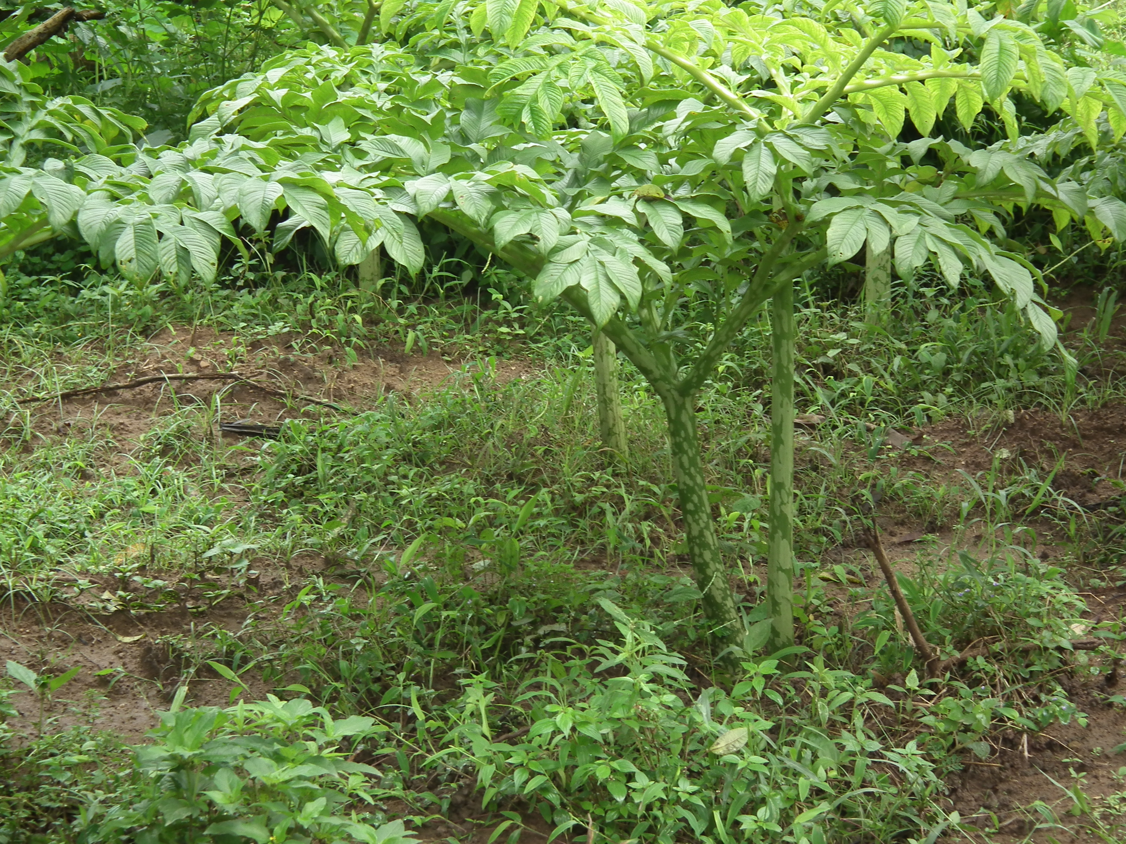 Amorphophallus paeoniifolius plant from Thrissur, Kerala, India